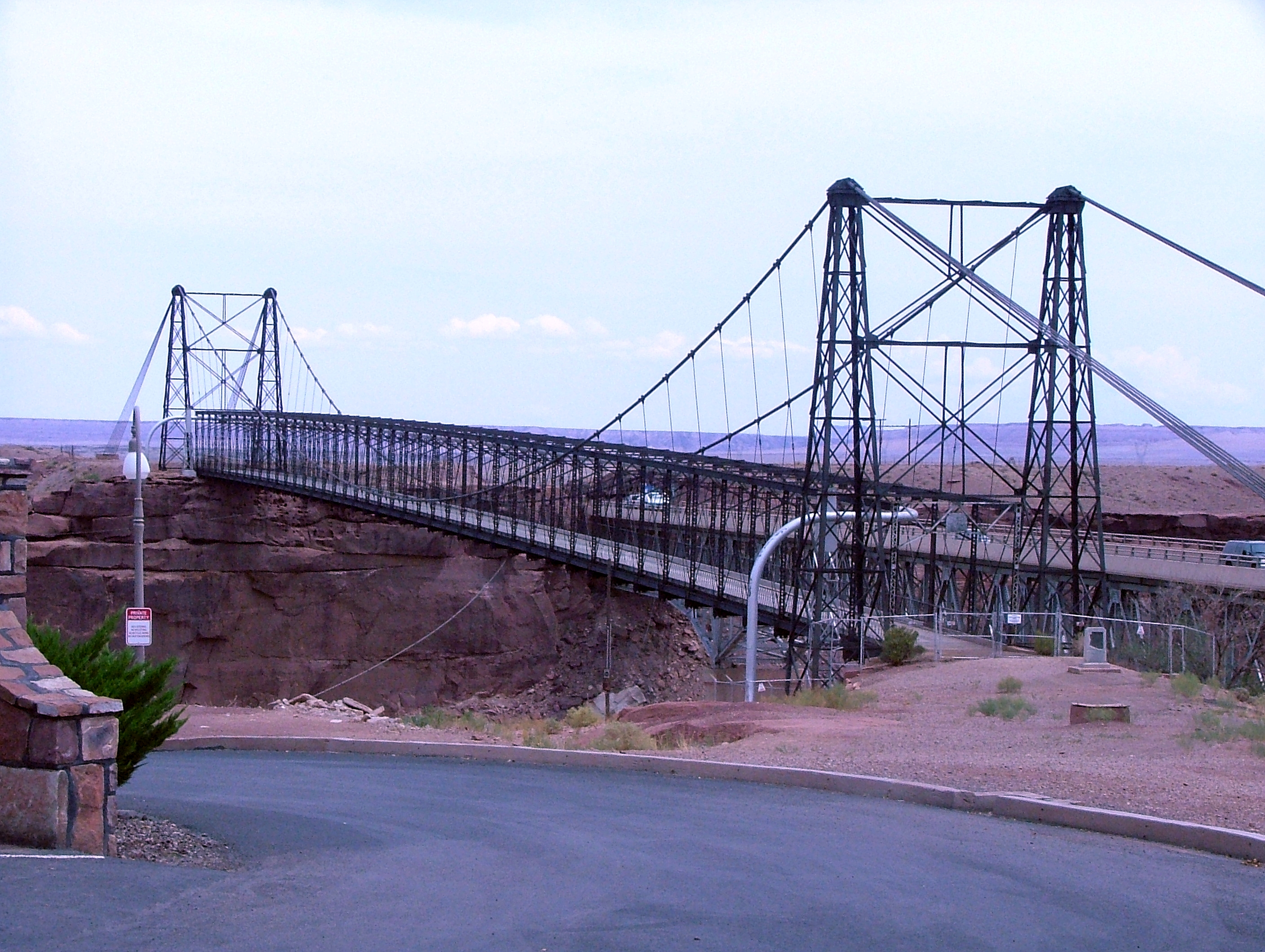 U.S. Route 89 crossing bridge near Cameron, Arizona. This bridge is a twin to the Dewey Bridge in Utah. Both bridges were built by the Midland Bridge Company of Kansas City, Missouri using the same base plans. This and the Dewey Bridge were the longest suspension bridges in the western United States when built.